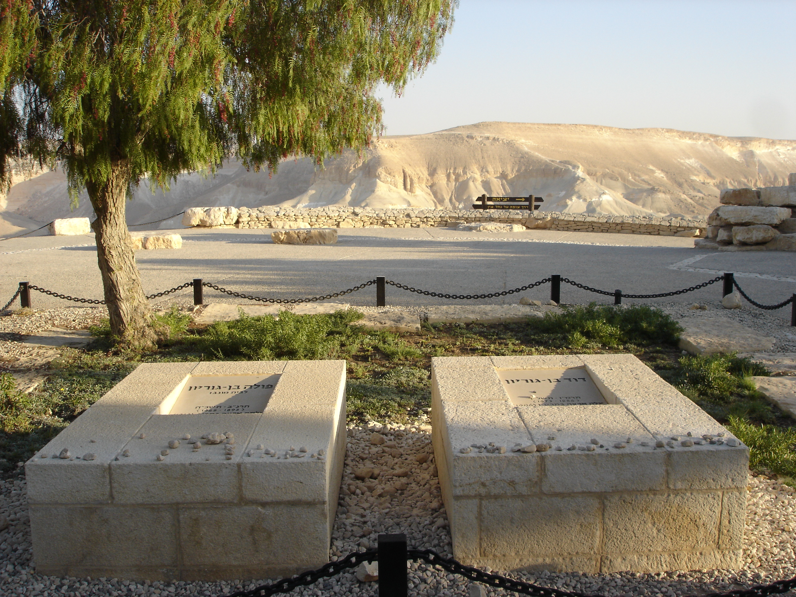 Burial site of first Israeli Prime Minister David Ben Gurion and his wife Paula. Negev Desert, central Israel